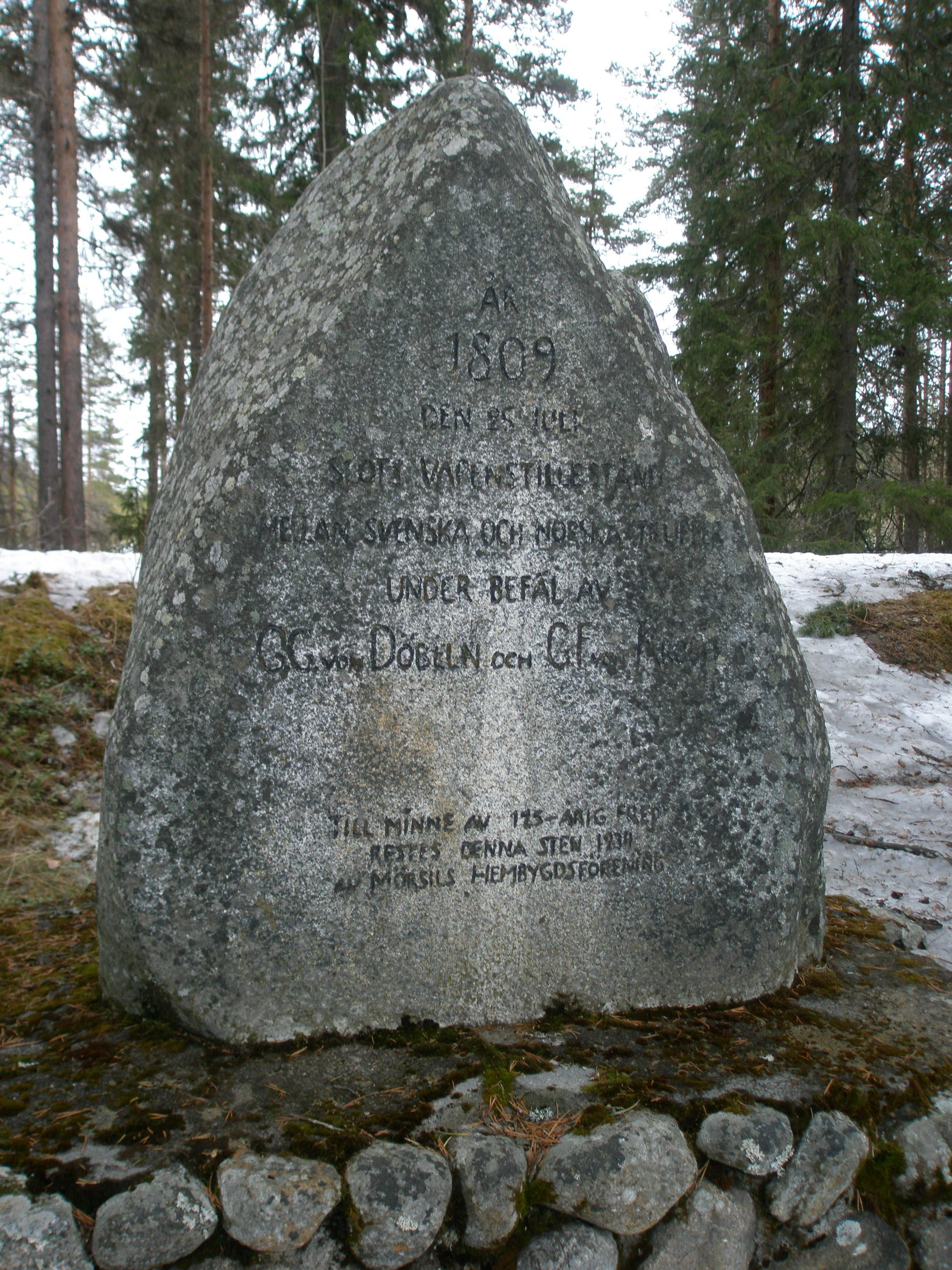 Peace monument situated between Mörsil and Bleckåsen, Mörsil parish, Krokom municipality, Jämtland, Sweden.